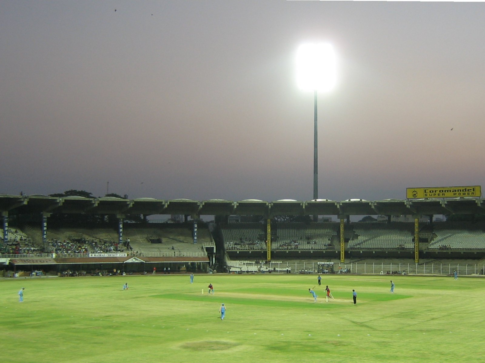 Cricket match between India Blue and India Red in progress during NKP Salve Challenger Trophy 2006 at the M. A. Chidambaram Cricket Stadium, Chennai, India.